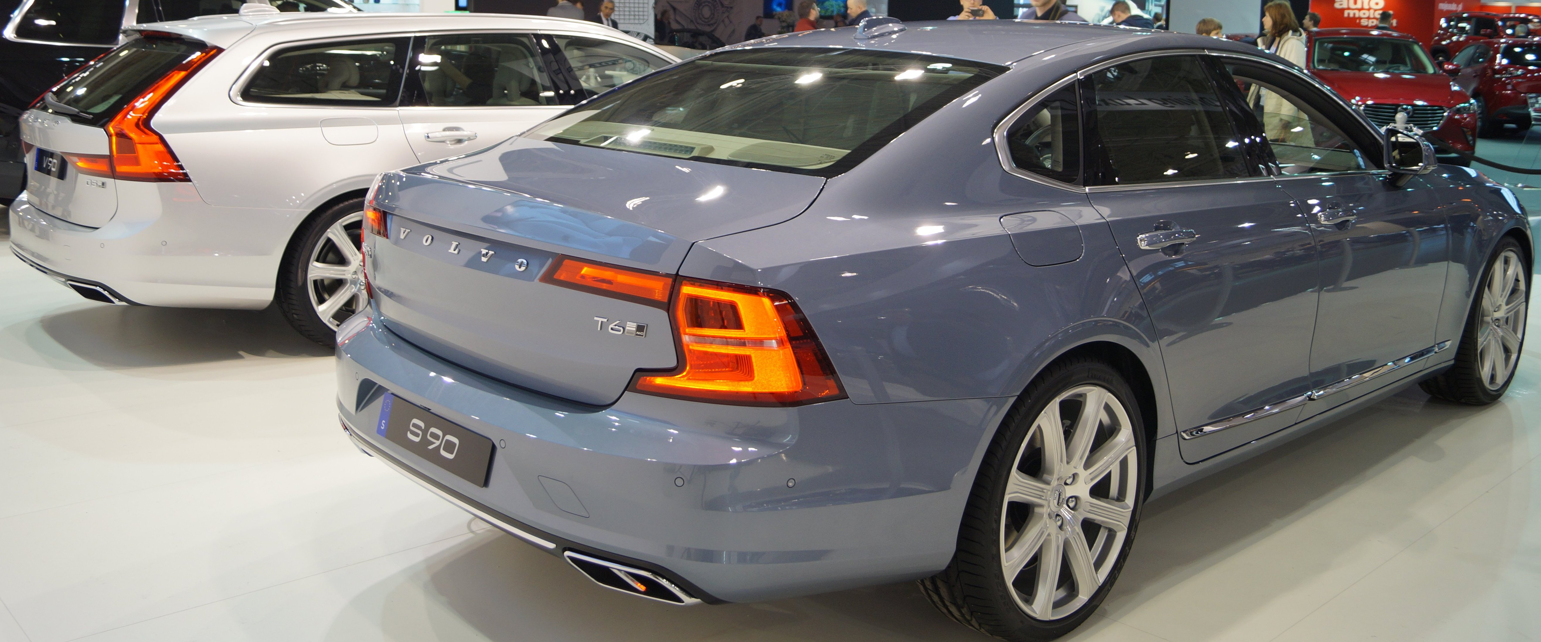 The making of this document was supported by Wikimedia Polska Association, within Wikigrant no. WG 2016-10. Przód Volvo S90 i Volvo V90 na Motor Show Poznań 2016